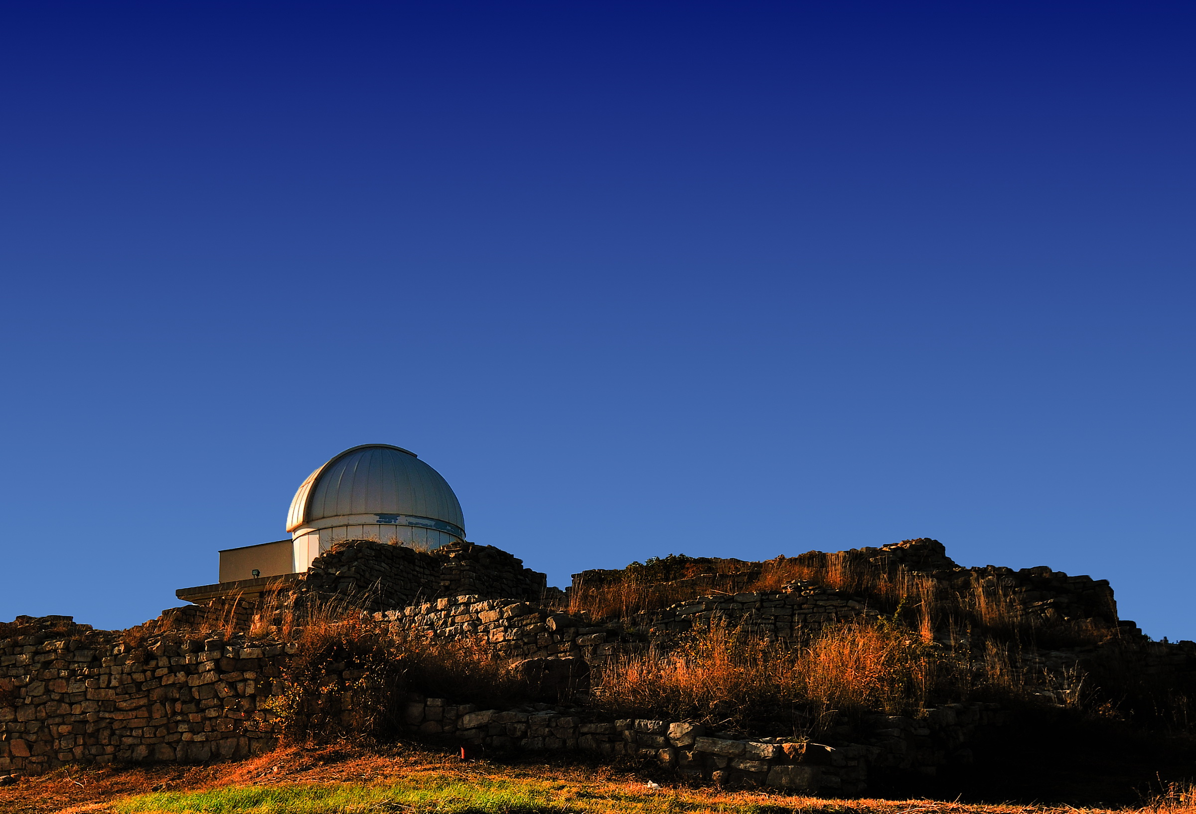 After the forest fire of July 1998 was a decision: if one suffers from trying to land, you must look at the sky. Now, attached to the ruins of the ancient castle of Montedono, a telescope of 400 mm. diameter, equipped and controlled automatically, allowing observation of the universe. The stars, nebulae and galaxies are easily observable. The refractor has sunscreen. The observatory dome with a diameter of 5 feet, was built in 2004 for public institutions to help agritourism in the area.